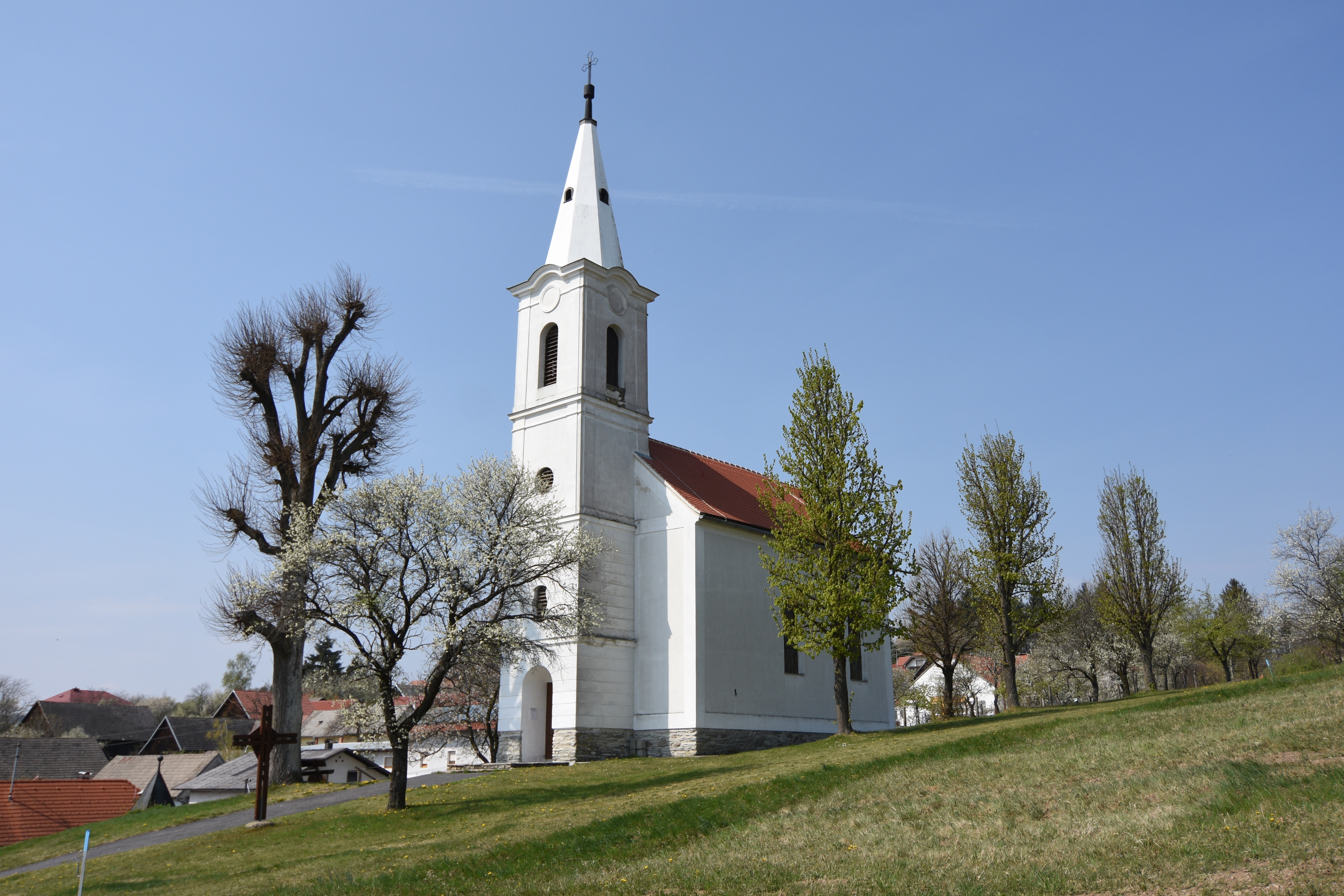 Church Salmannsdorf